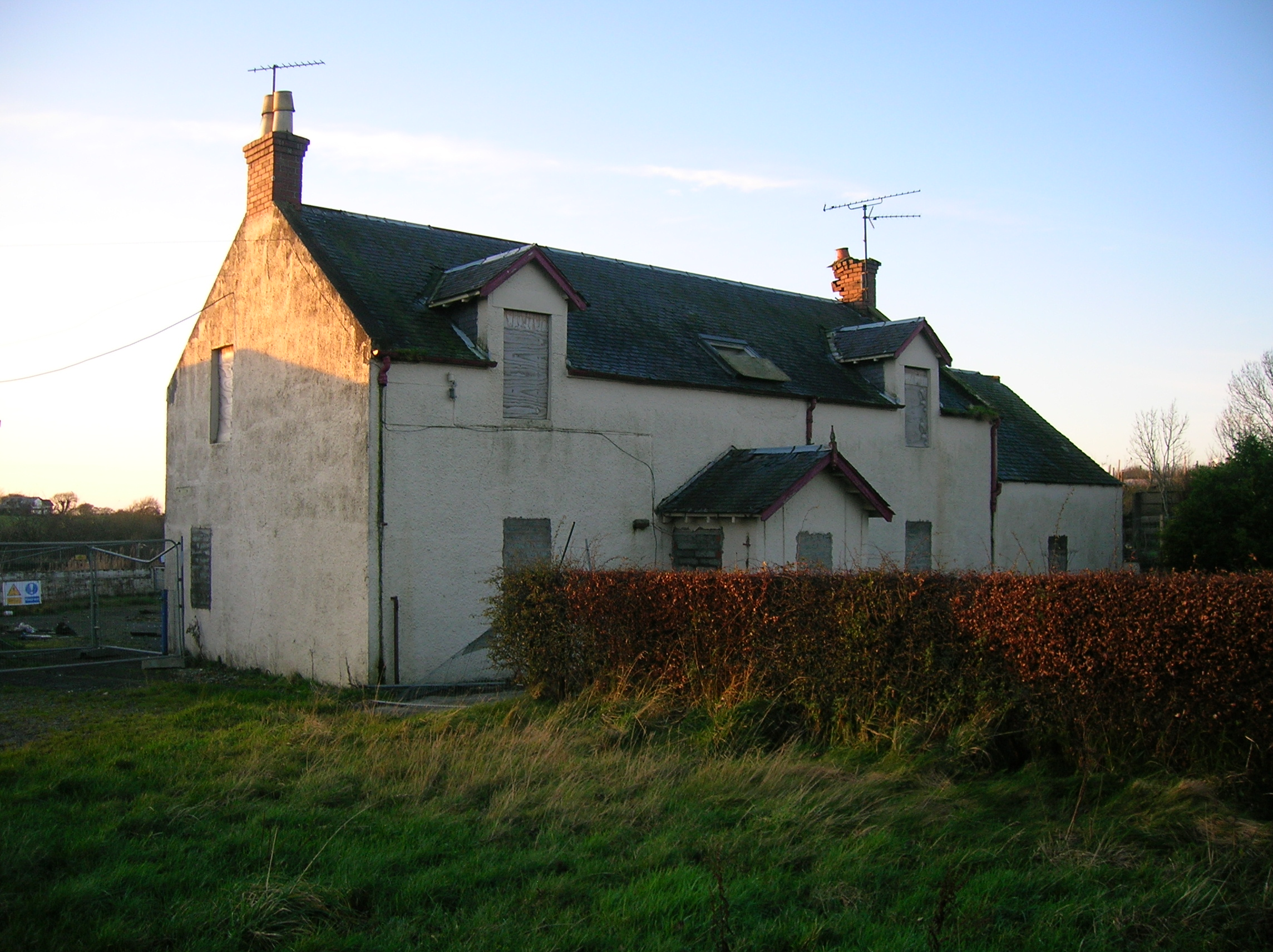 Mill of Shield or Mill o'Shiel, Drongan, East Ayrshire, Scotland. Once fed by Loch Shield